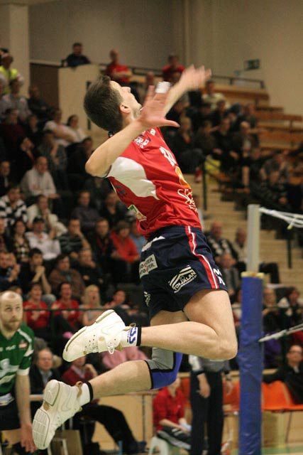 finland volleyball player Joni Mikkonen.